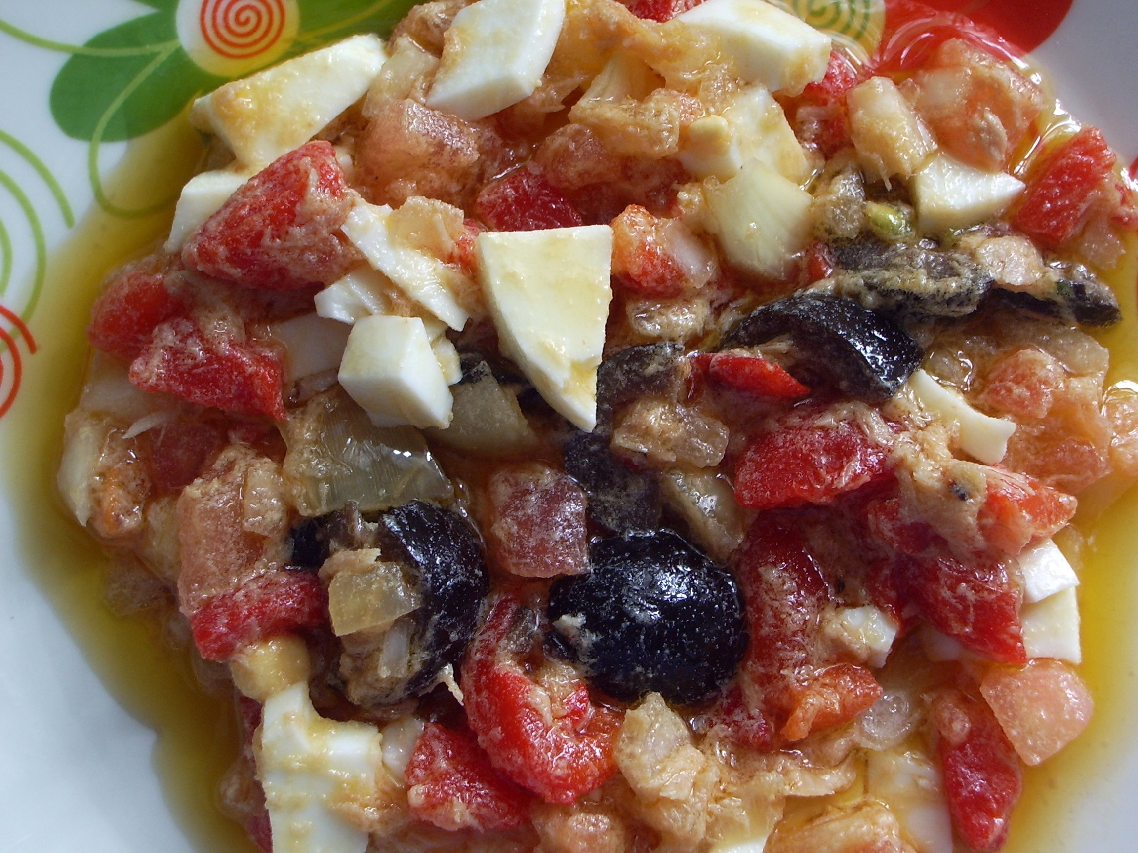 Murcian's salade